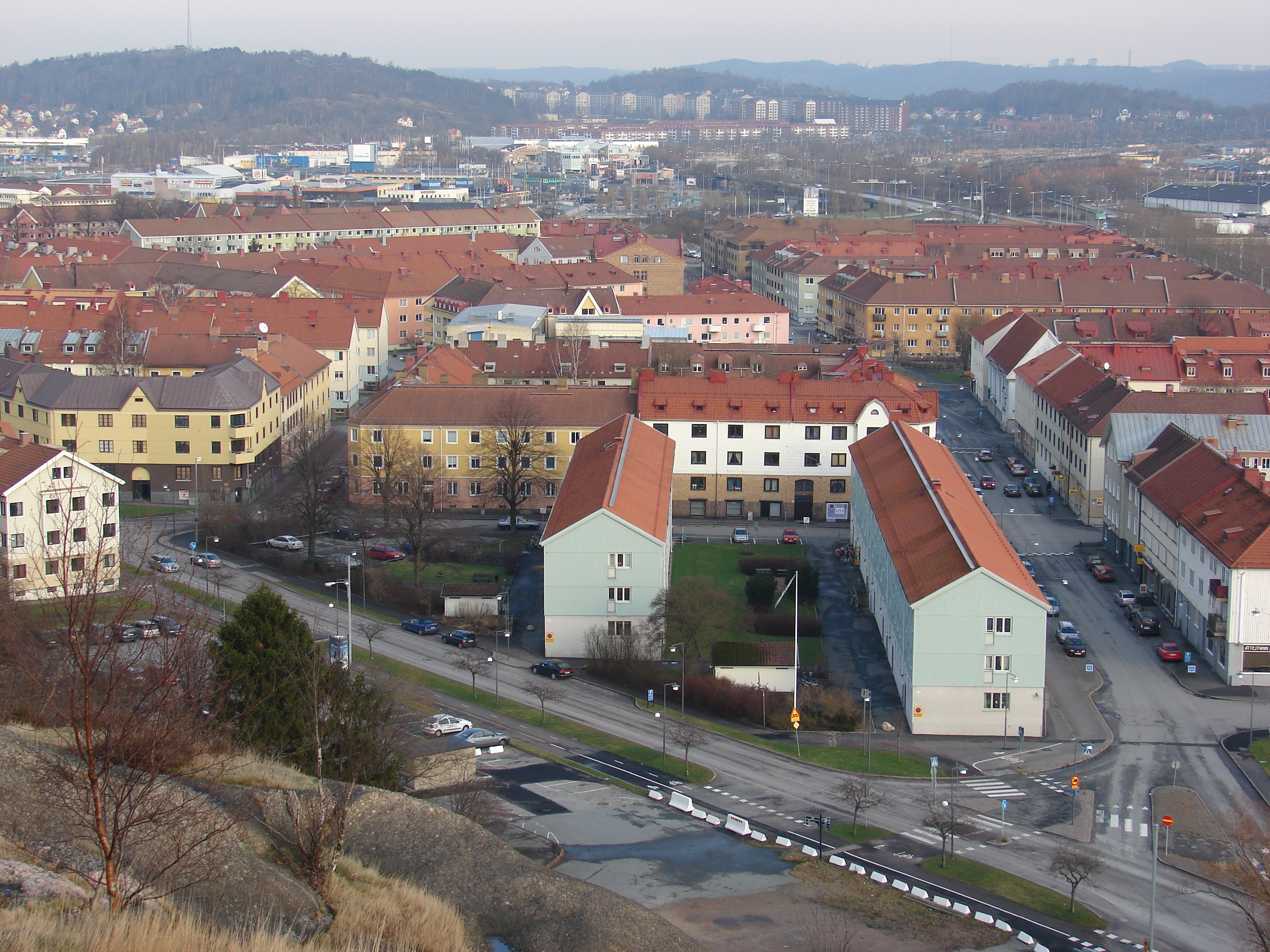 A view overlooking urban district Brämaregården of Gothenburg (in Sweden).